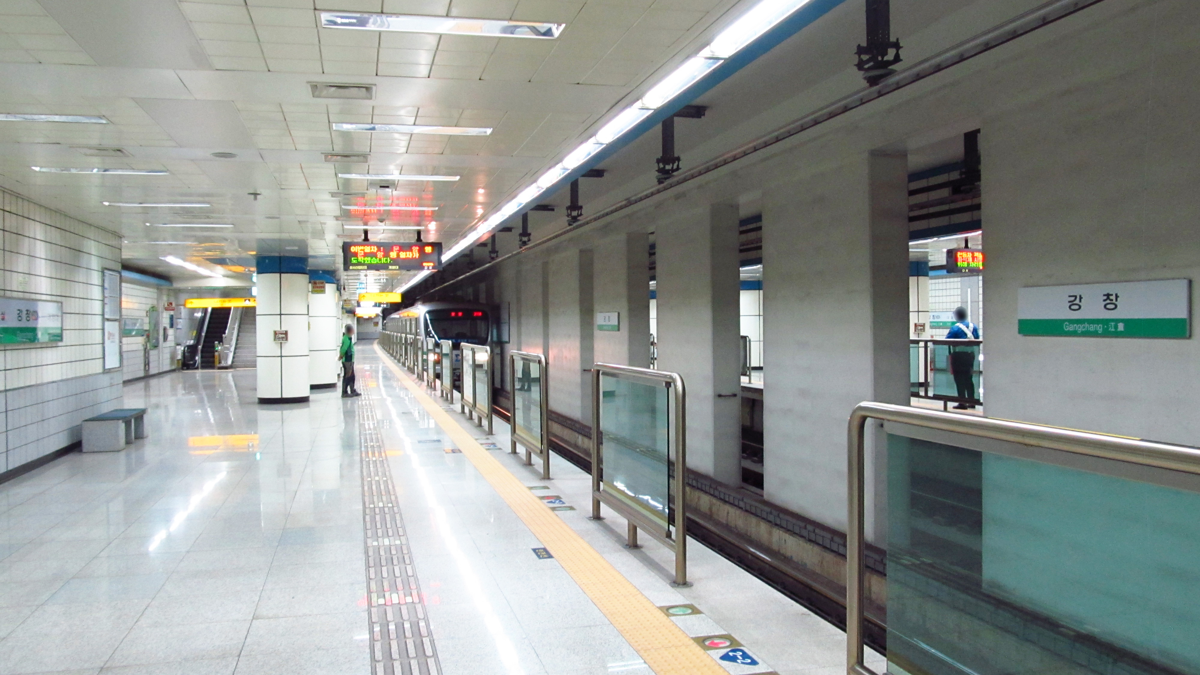 The platforms of Gangchang Station on the Daegu Metro Line 2